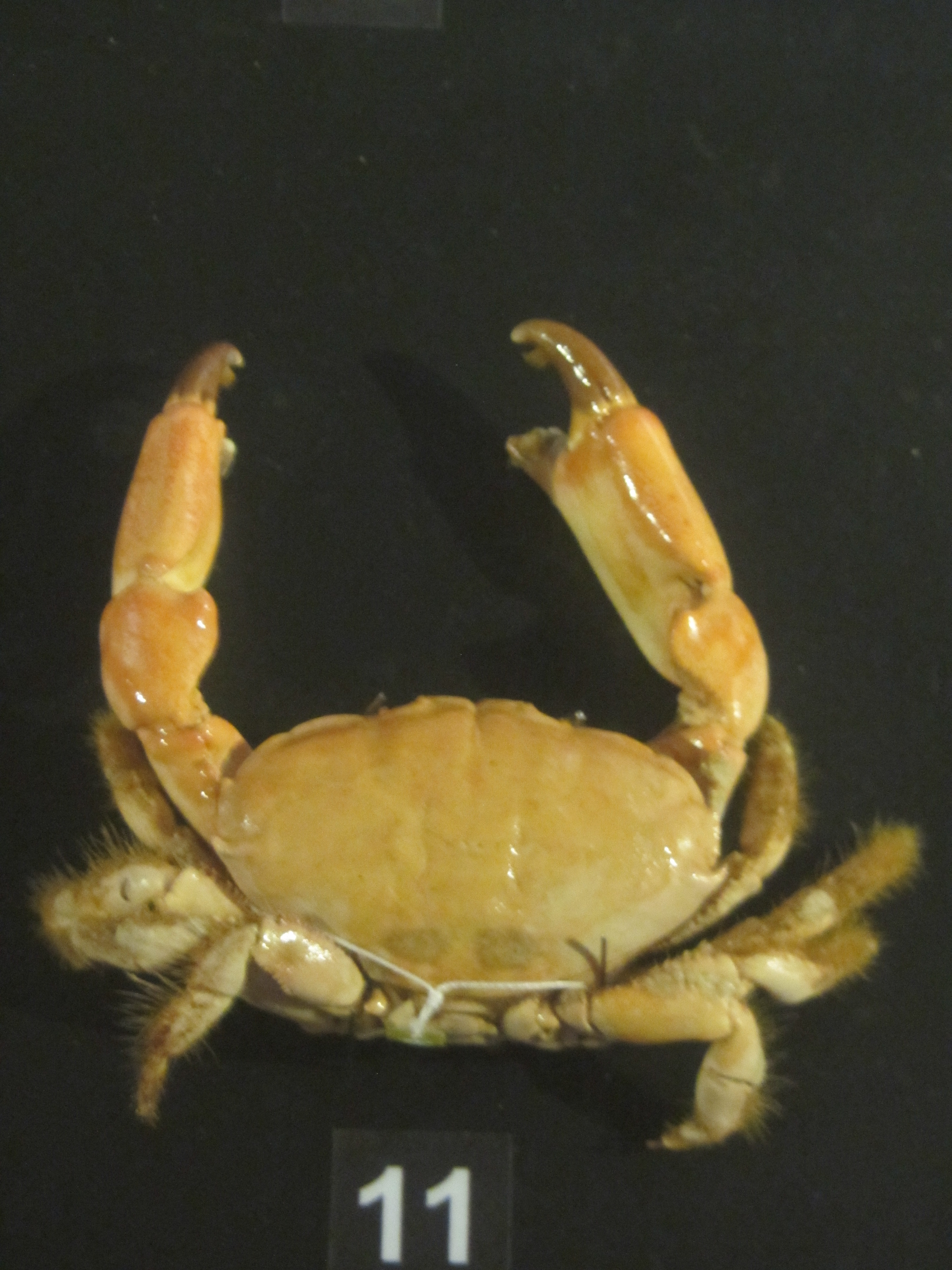 Specimen of Lachnopodus subacutus